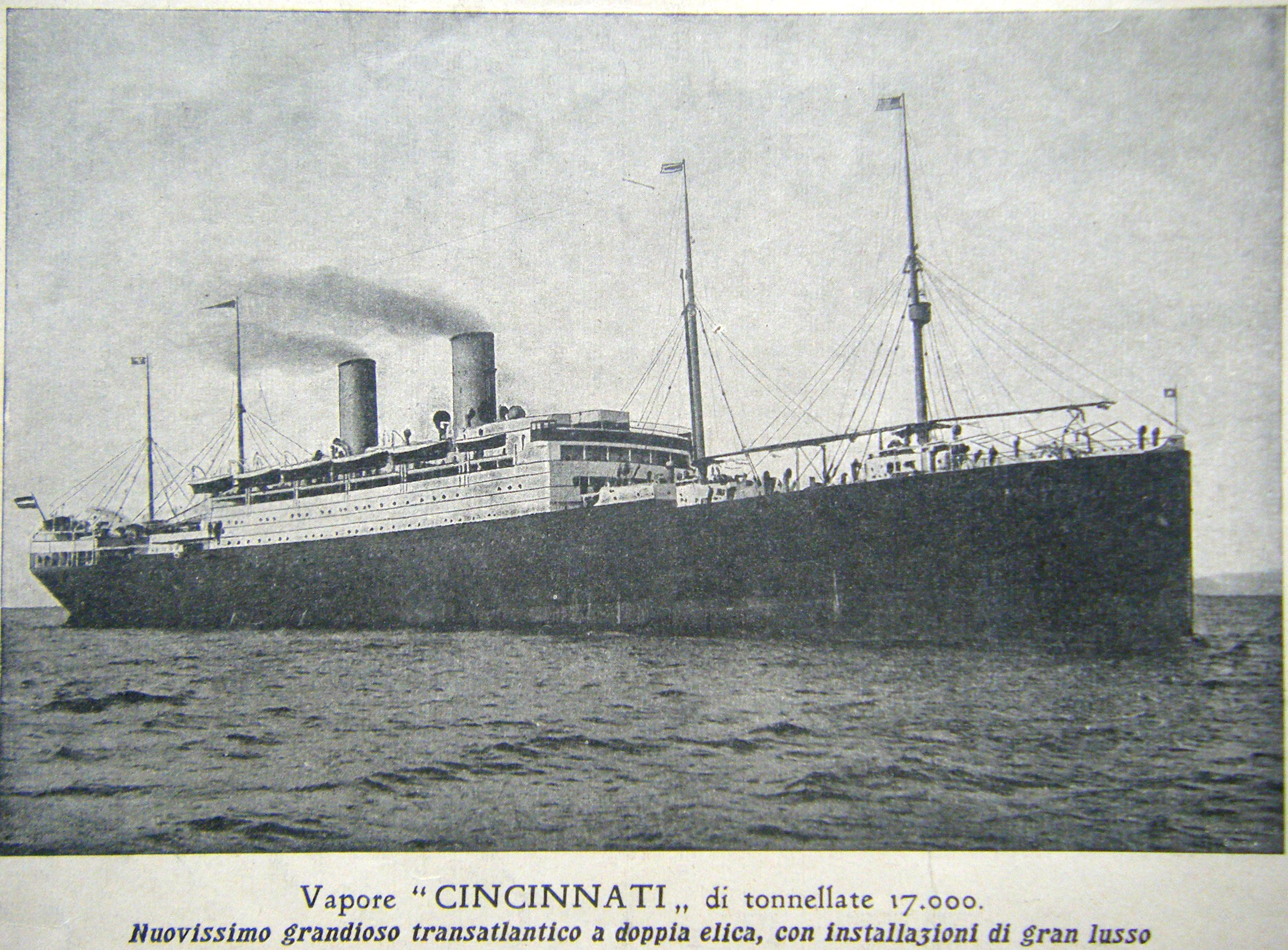 Steam Ship Cincinnati